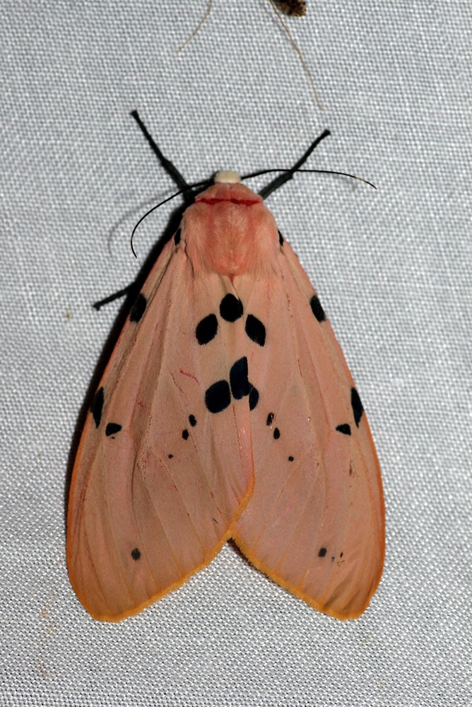 Borneo, Crocker Range National Park April, 2009